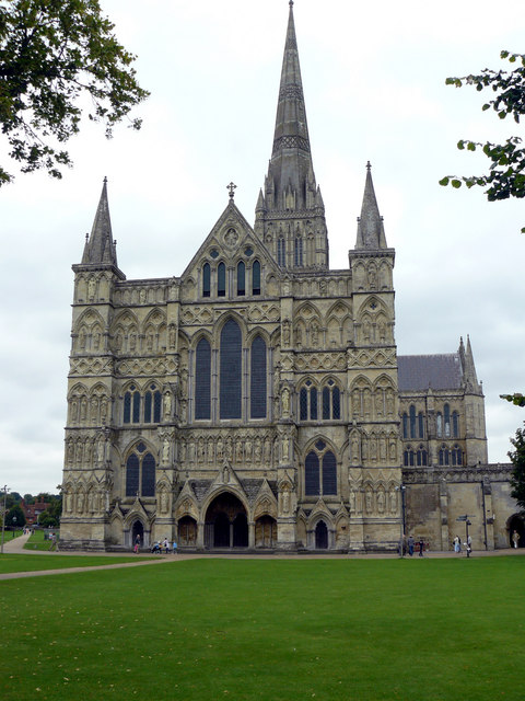 Salisbury - Cathedral The imposing front of this cathedral has stood here for 750 years.